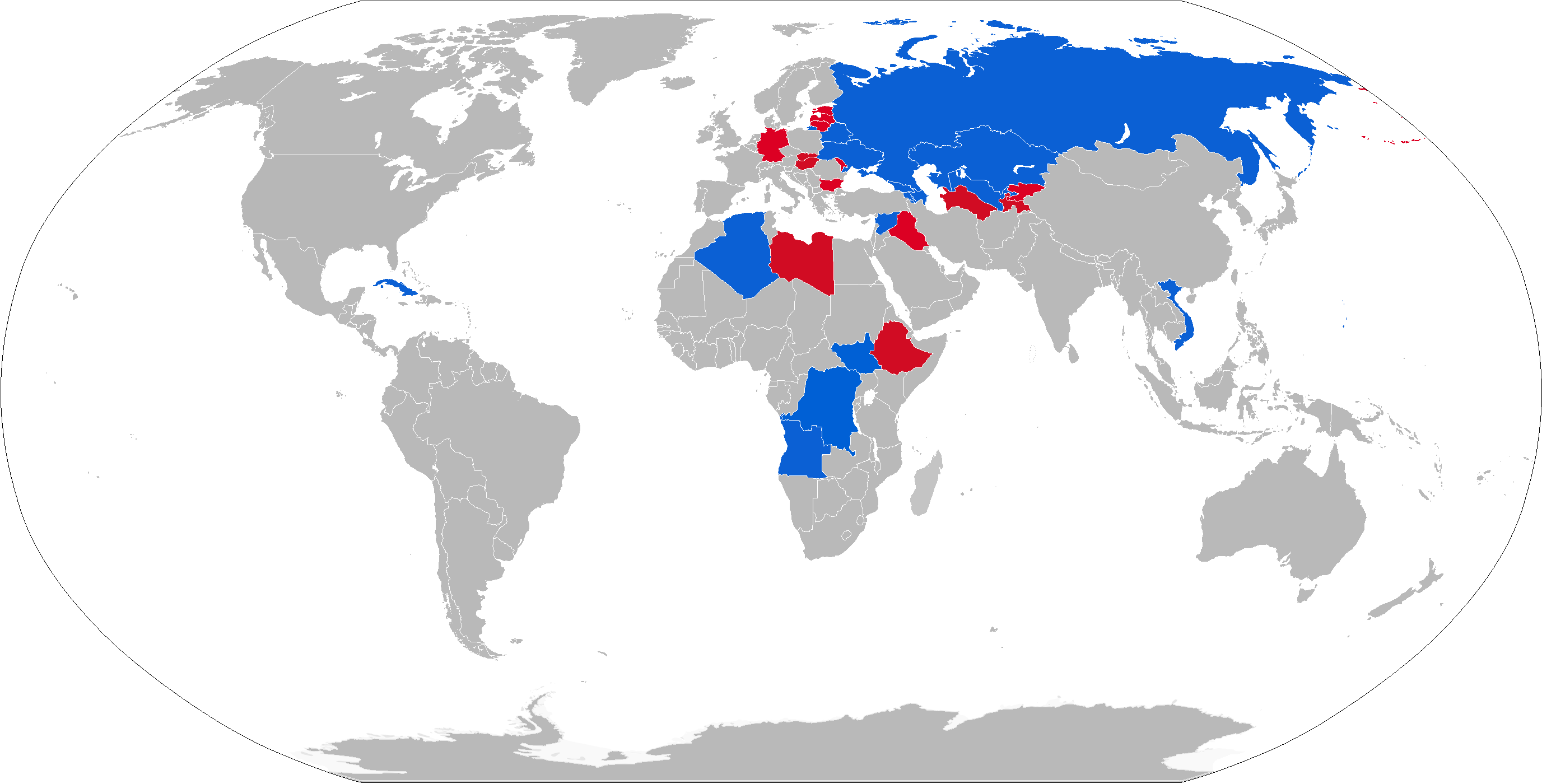 Map of 2S3 operators in blue with former operators in red